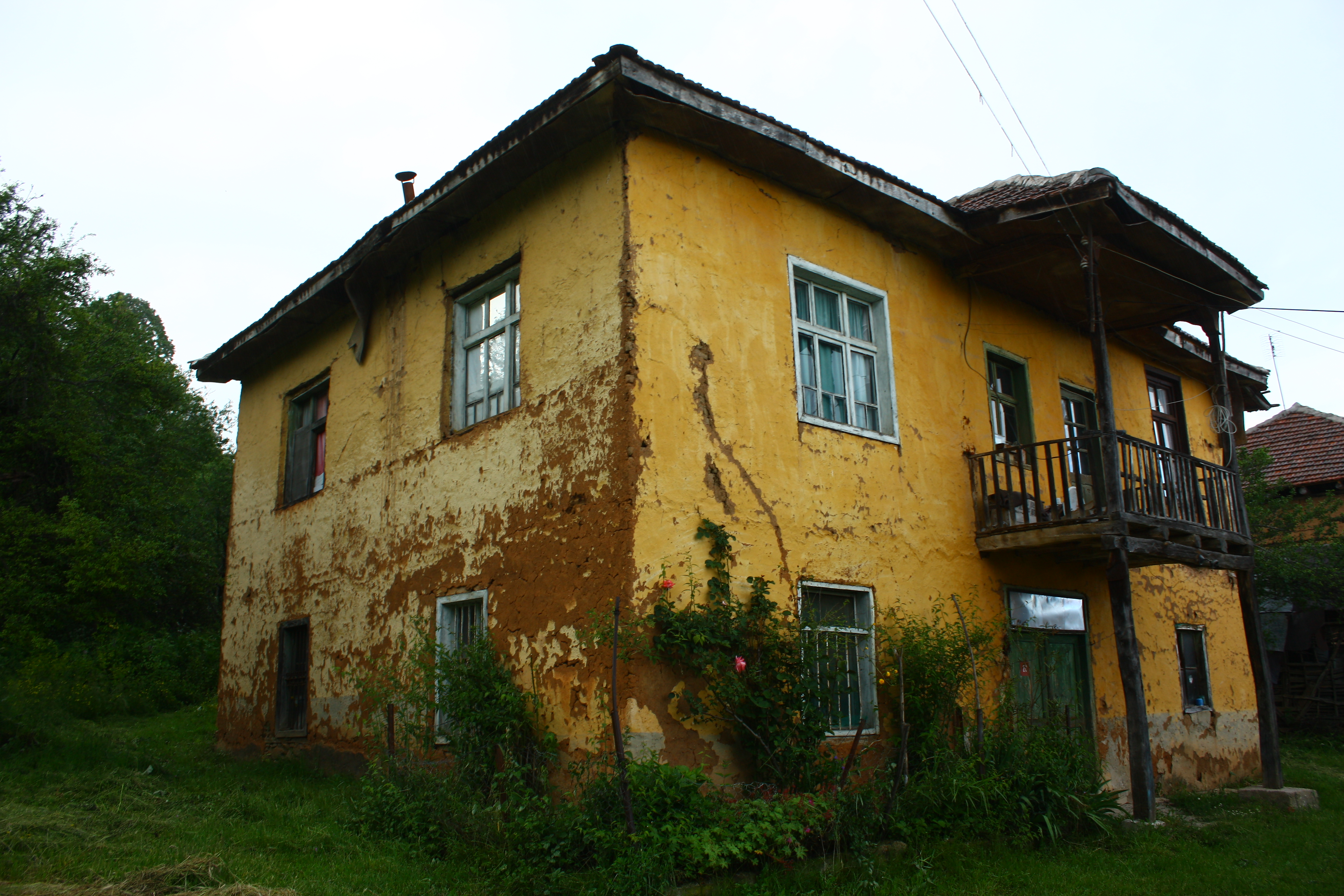 Village of ‚Požarane, Macedonia